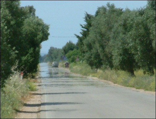 Mirage, reflection of light on a hot road.